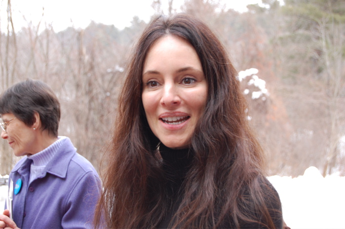 Madeleine Stowe, New Hampshire 2008 - Photo by Joshua Skaroff